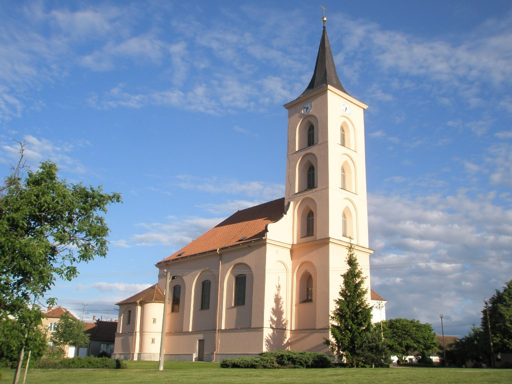 Church of birth Virgin Maria in Velké Bílovice, Břeclav District, South Moravian Region, Czech Republic